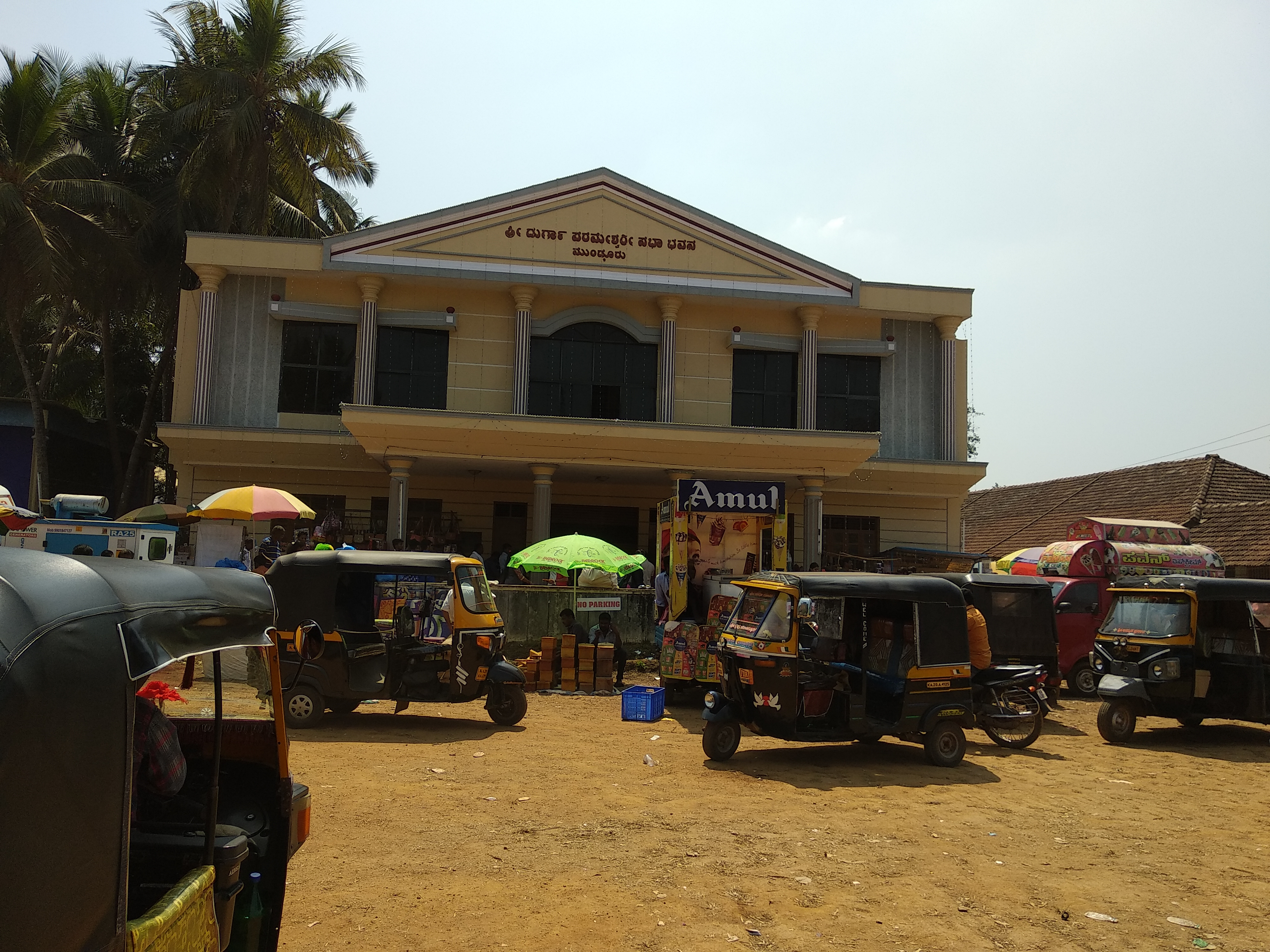 Mundkur Village, Karkal Taluk Udupi district, Karnataka India ಕನ್ನಡ: ಮುಂಡ್ಕೂರು ಗ್ರಾಮ, ಕಾರ್ಕಳ ತಾಲೂಕು ಉಡುಪಿ ಜಿಲ್ಲೆ, ಕರ್ನಾಟಕ